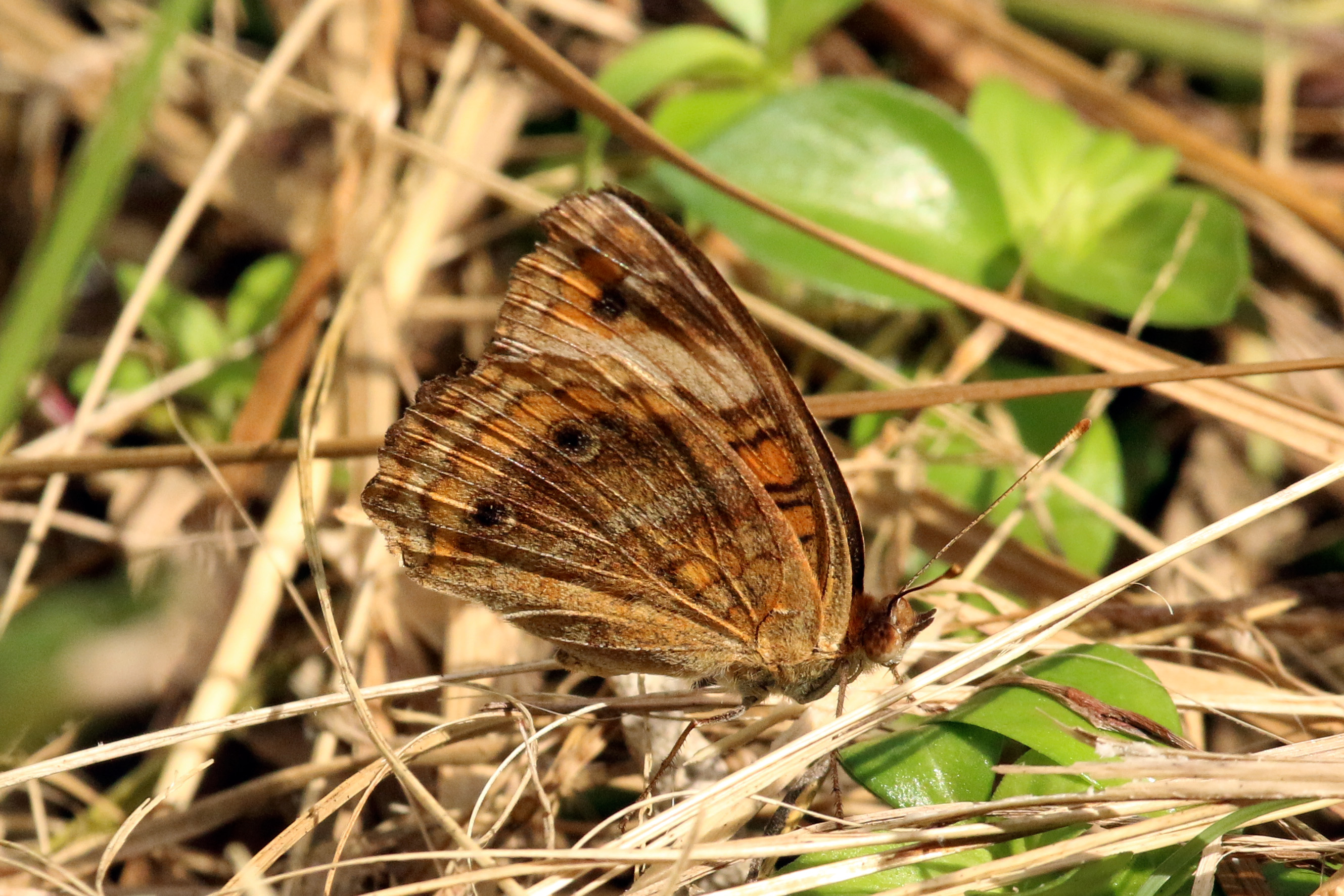 West Indian buckeye butterfly (Junonia evarete evarete), Tobago